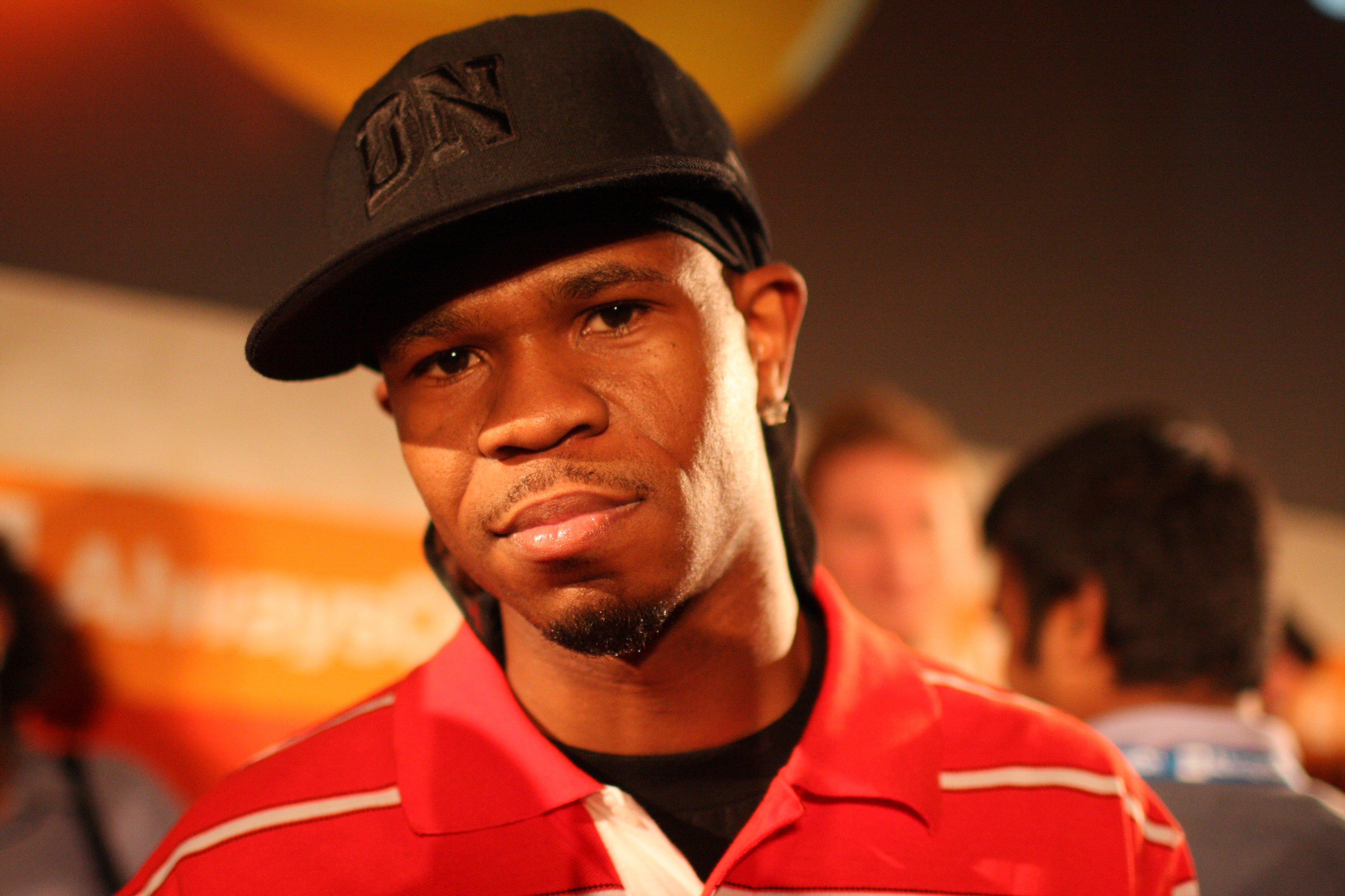 Chamillionaire and Alex Ho. (CC) Brian Solis, and .